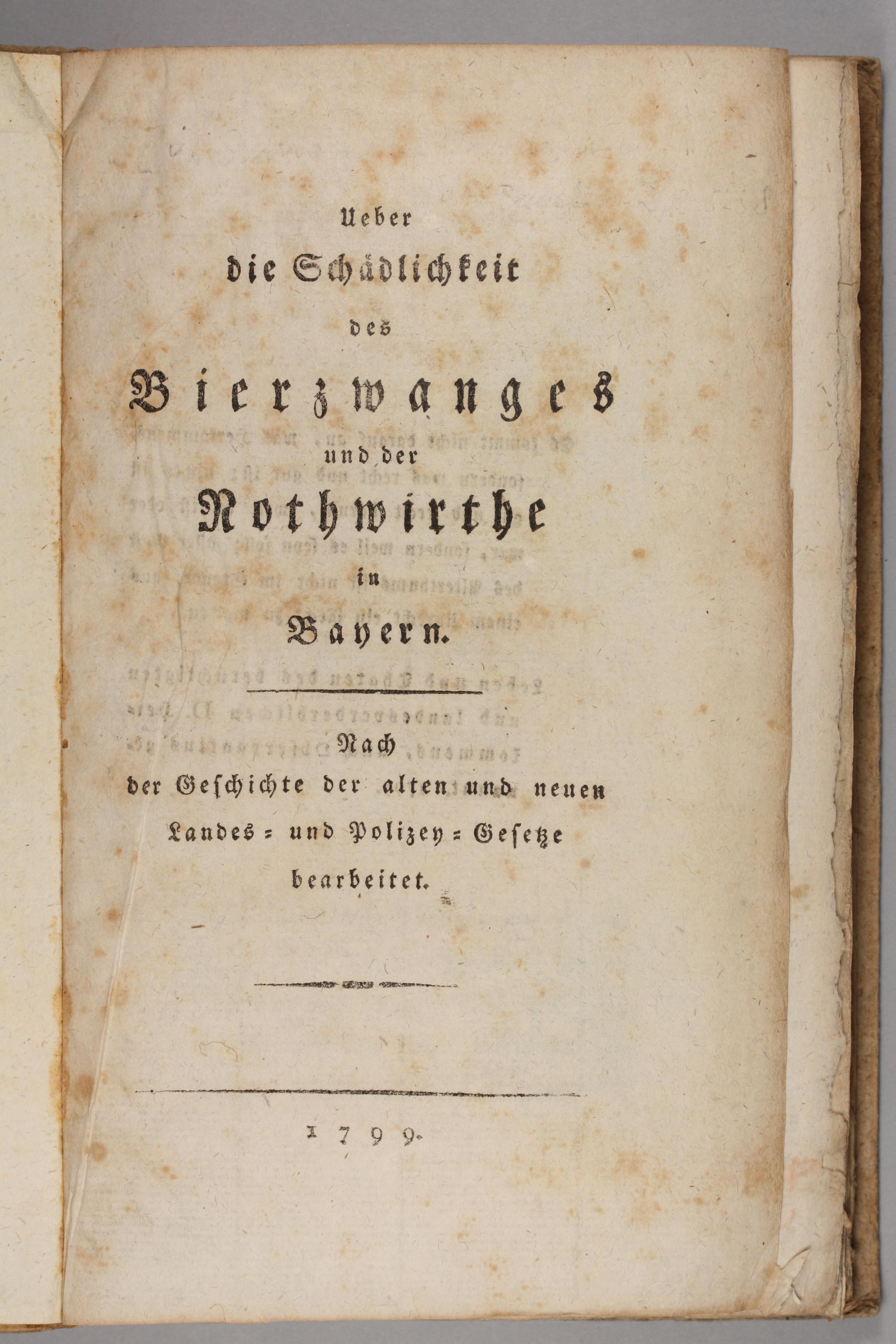 Ueber die Schädlichkeit des Bierzwanges und der Nothwirthe in Bayern : Nach der Geschichte der alten und neuen Landes- und Polizey-Gesetze bearbeitet Anonymous [Simon Rottmanner]. [S.l.], 1799. Simon Rottmanner published this book anonymously as a response to laws and taxes in Bavaria aimed at discouraging homebrewing. According to Rottmanner these laws and taxes would drive simple people from their homes into taverns and at the same time initiate a competition between the noble classes, monasteries, and civilian brewers.